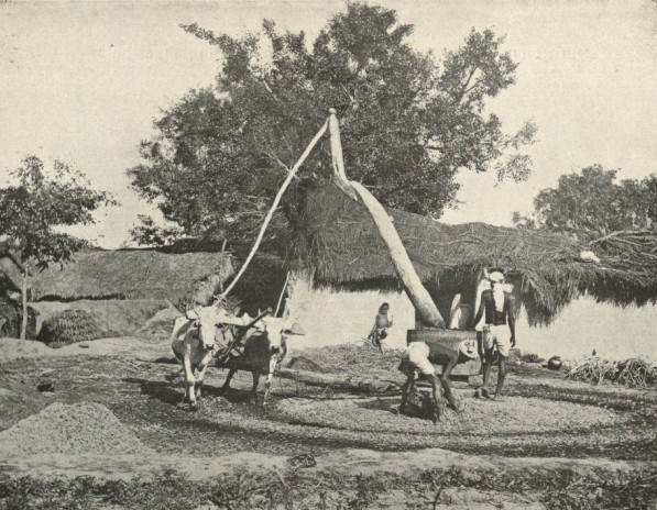 Sugar Cane Press